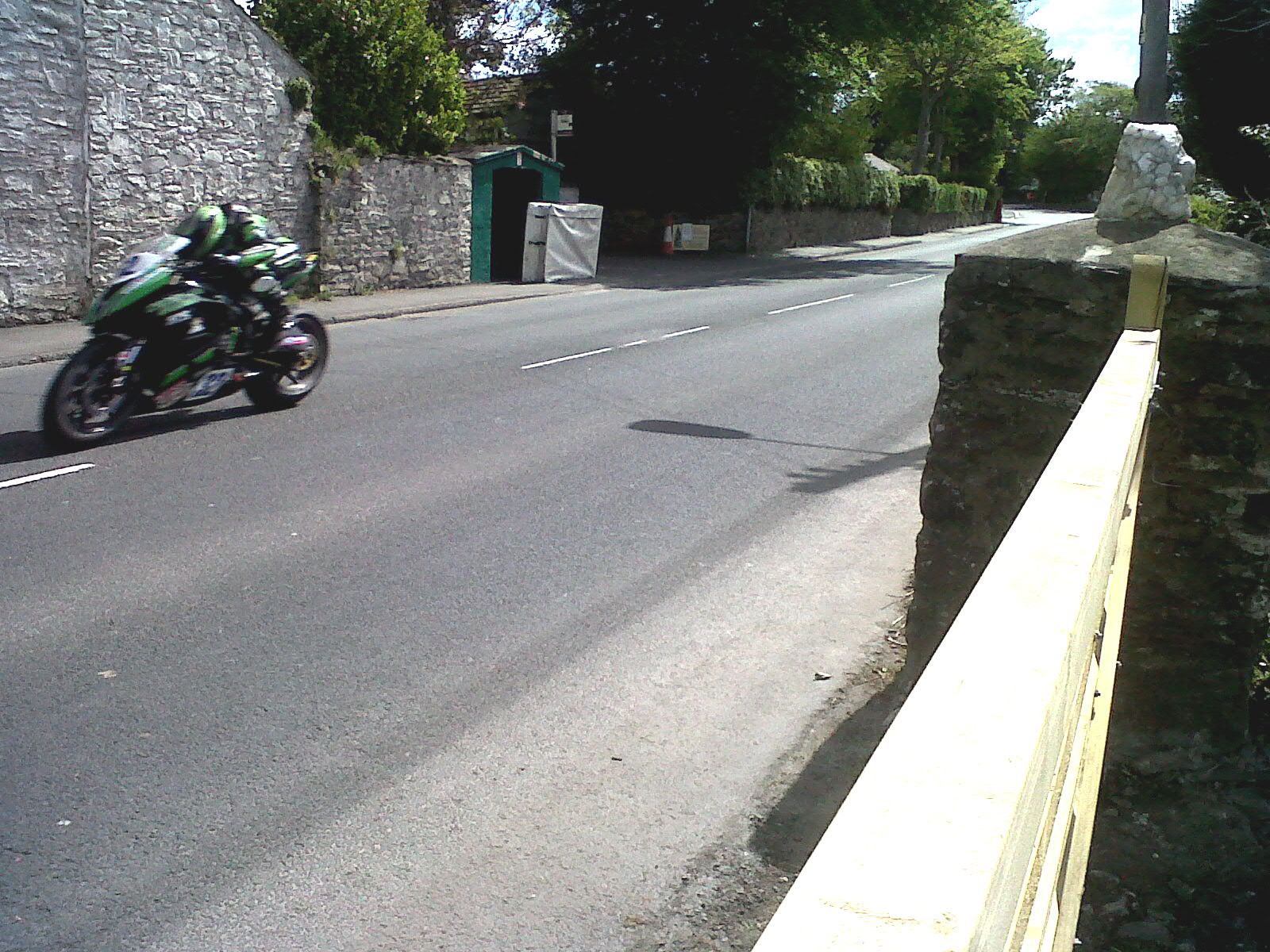 Rider at speed passing Ballagarey House on the Isle of Man TT course during 2013 TT races. The actual Ballagarey Corner, a right-kink on the A1 road in the direction taken by competitors, can just be seen in the background